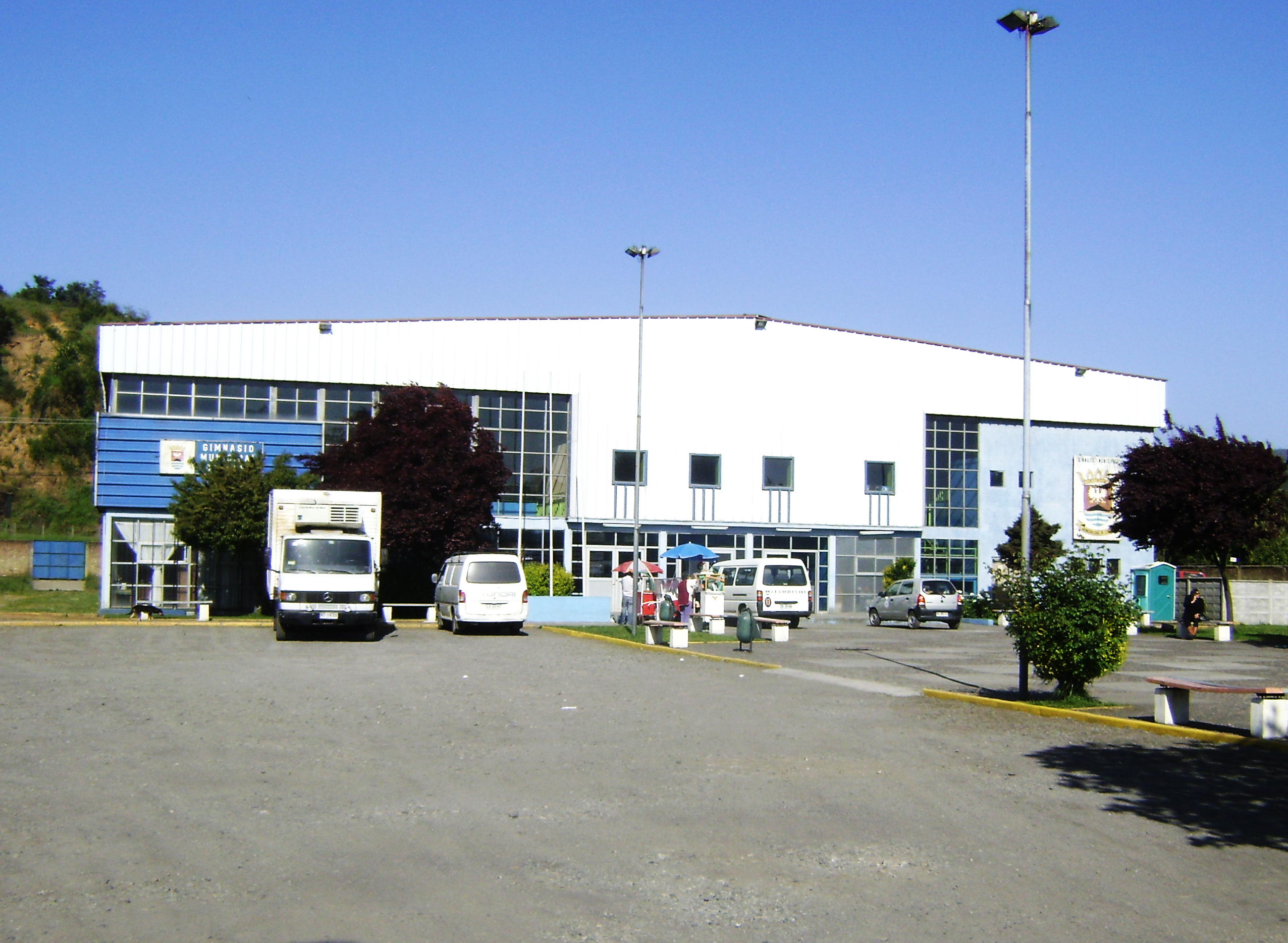 Coronel Gym